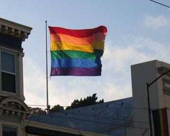 Six color rainbow gay pride flag flying above Castro Street, San Francisco, California, June 2005. Photo by Justin J.W. Powell.